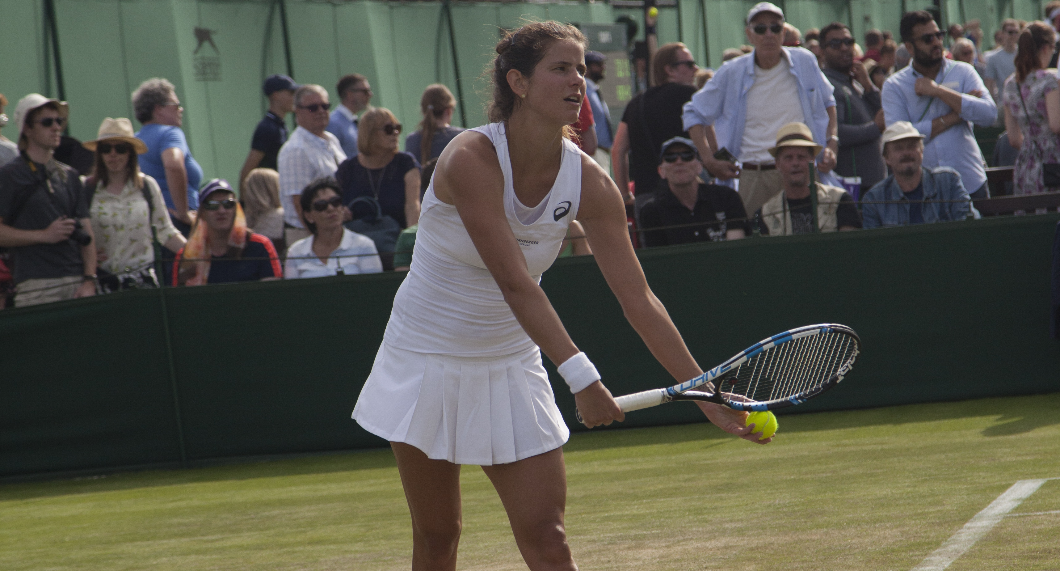 Julia Görges at Wimbledon 2017